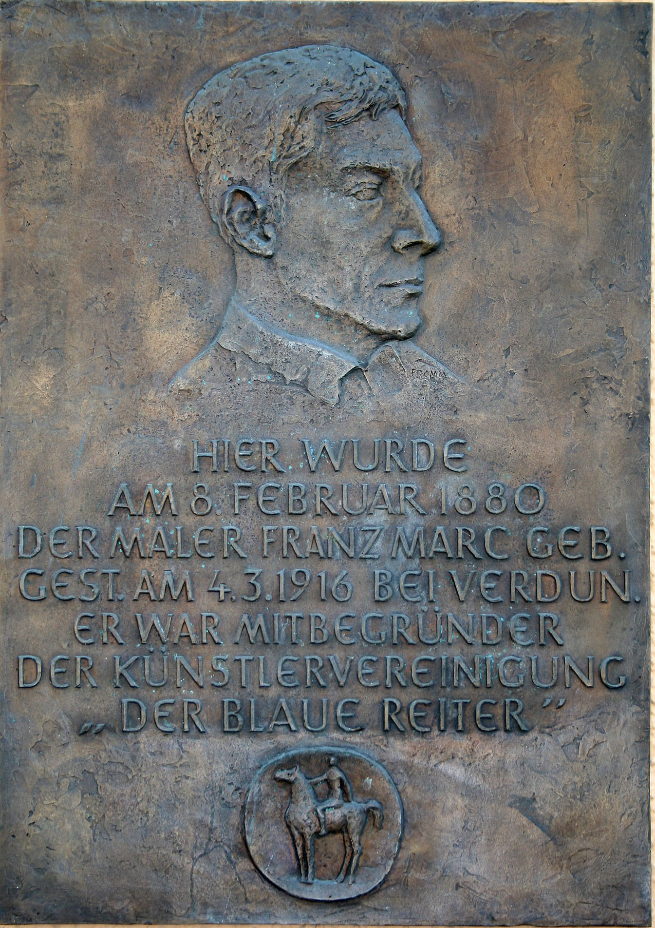 Board at the Franz Marc's birthplace in the Schillerstrasse in Munich